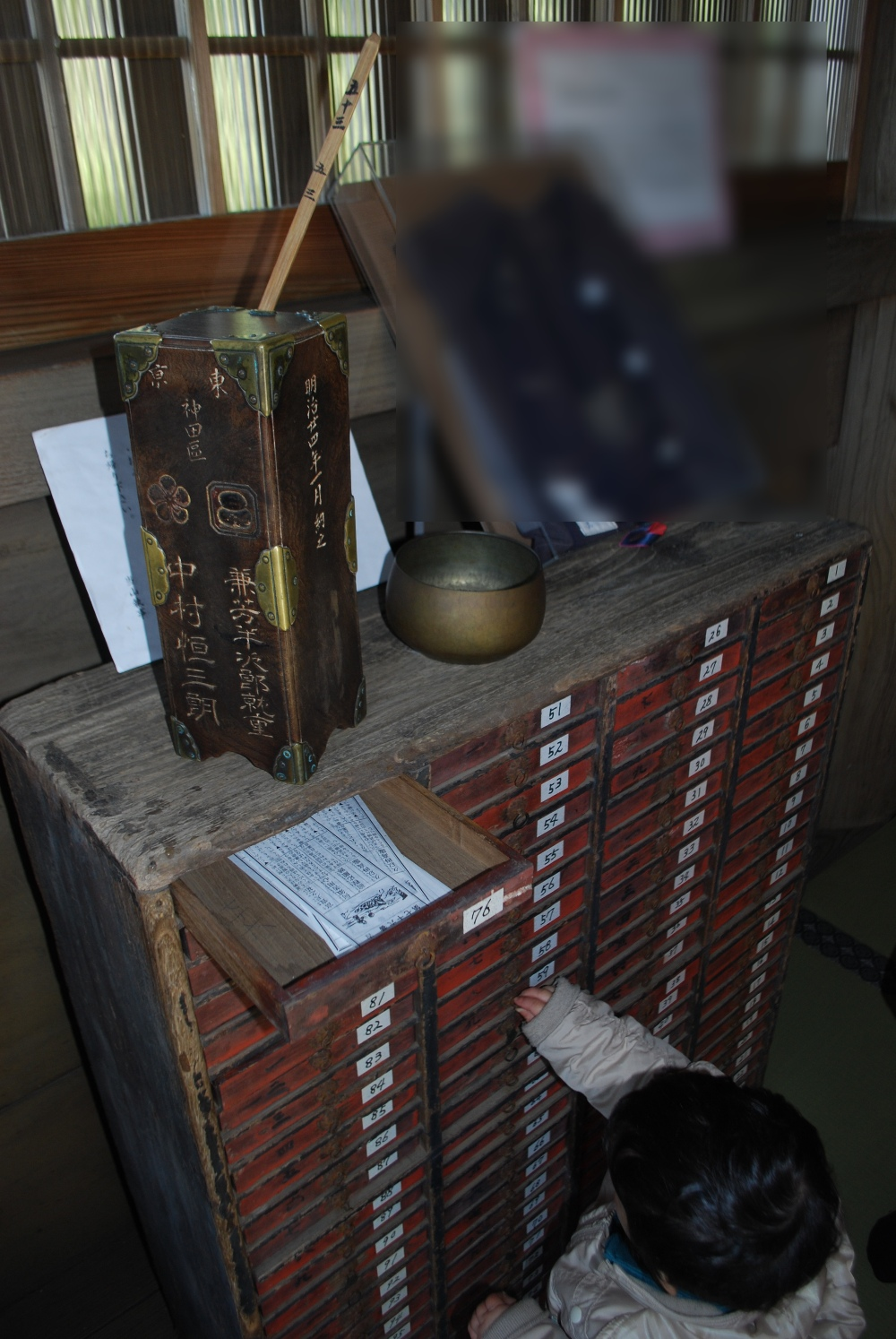 Omikuji. The storing shelf of God lottery box and the sacred lot. I take a sacred lot out of the storing shelf of the number same as the number that the bamboo says it. Shibayama-Nioson,Shibayama-town,Japan.